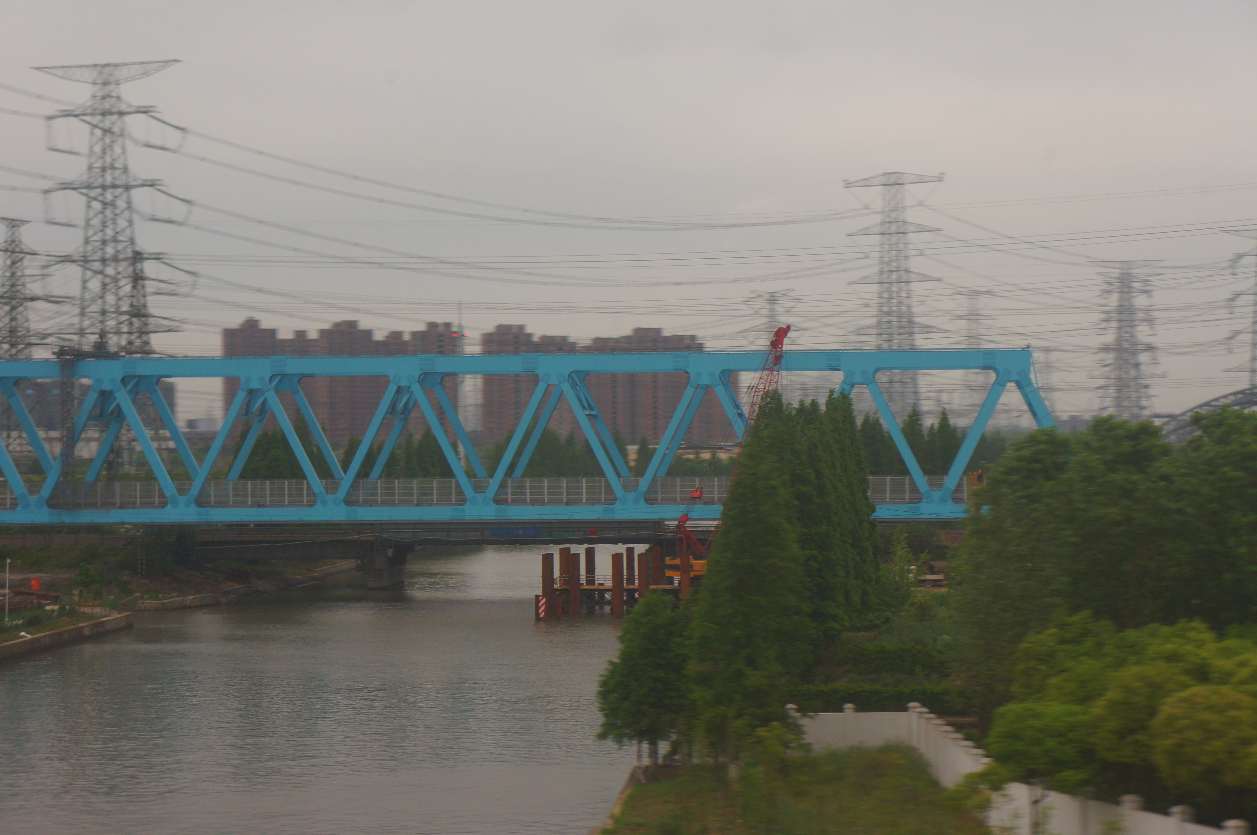 201705 Shanghai–Nantong Railway Yunzaobang River Bridge